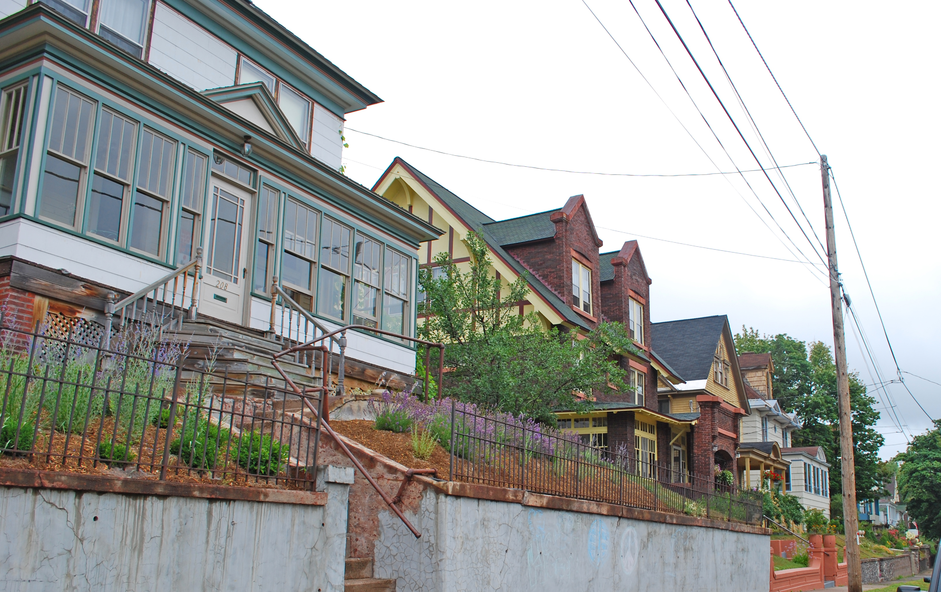 East Hancock MI Neighborhood Historic District